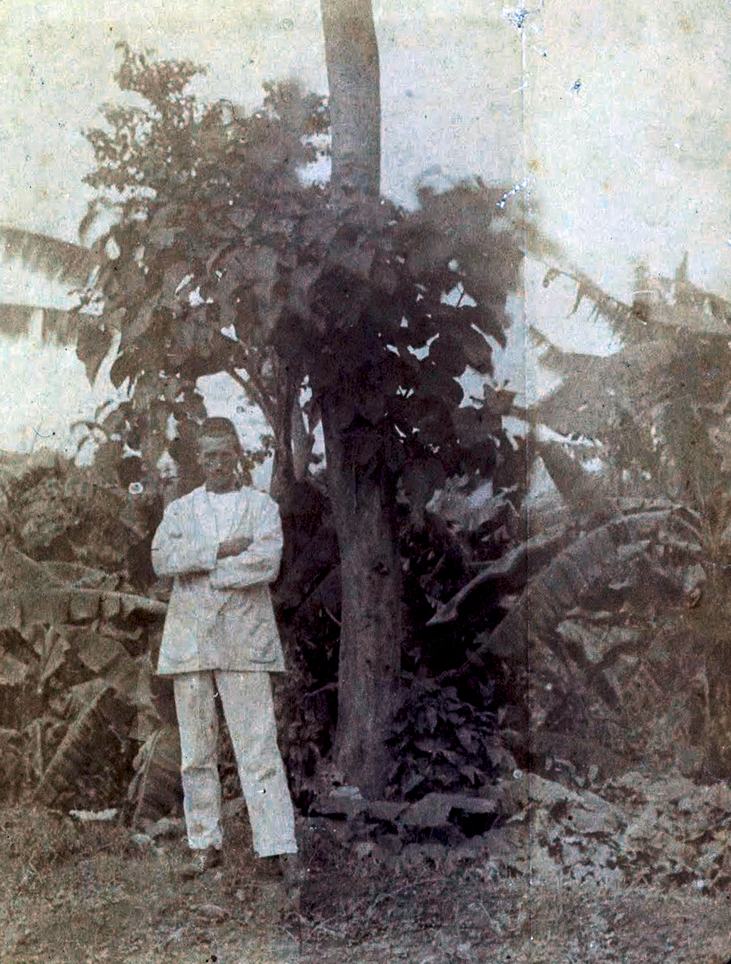 Arthur Rimbaud standing in front of a tree in Harar.